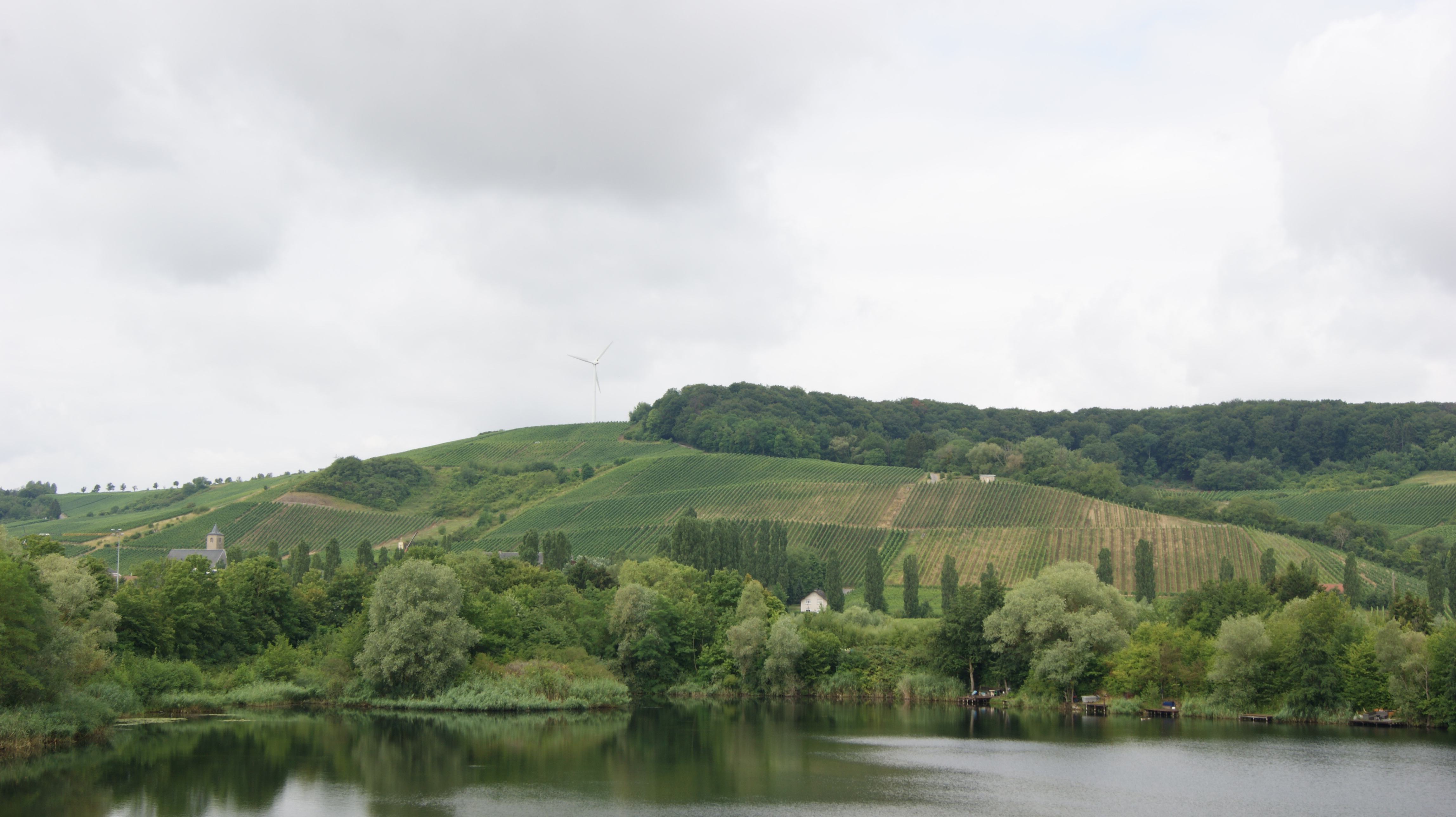 View from the Nature Conservation Center / Visitor Center "Biodiversum - Camille Gira" (formerly "Nature et Forêt Biodiversum") in Remerschen (lux .: Rëmerschen or Riemëschen), municipality of Schengen in the Grand Duchy of Luxembourg. Architect: François Valentiny.